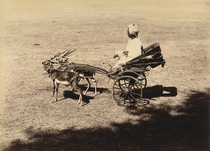 Photograph of a carriage pulled by deer at Baroda, Gujarat from the Curzon Collection, taken by an unknown photographer during the 1890s. The small two-wheeled carriage belonged to Gaekwar Sayaji Rao III (ruled 1875-1939), 12th Maharaja of Baroda. He owned a collection of exotic transport, which also included solid gold and silver carriages drawn by caparisoned bullocks. They were displayed to visitors and used on ceremonial occasions.